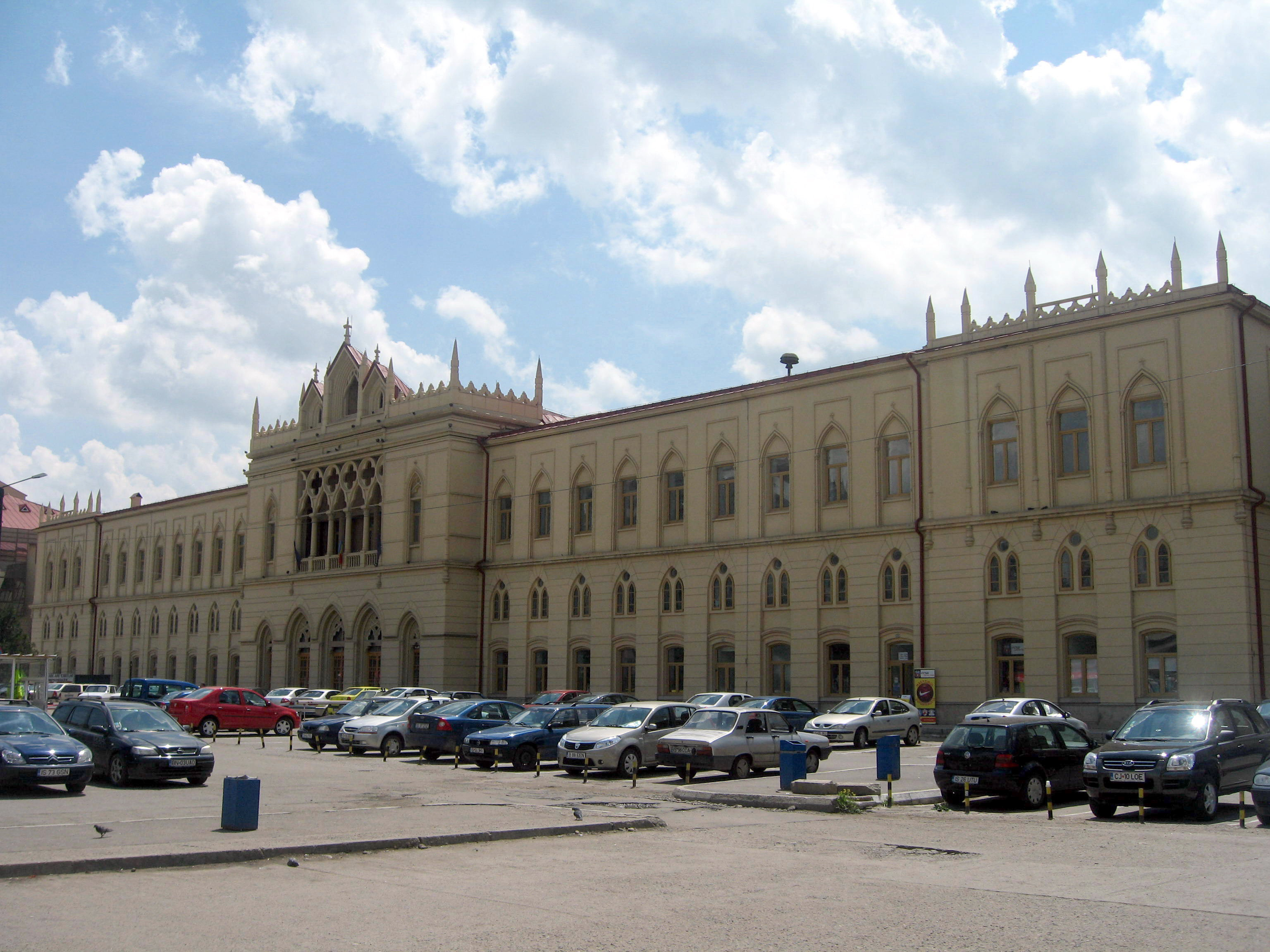 Iași Railway Station